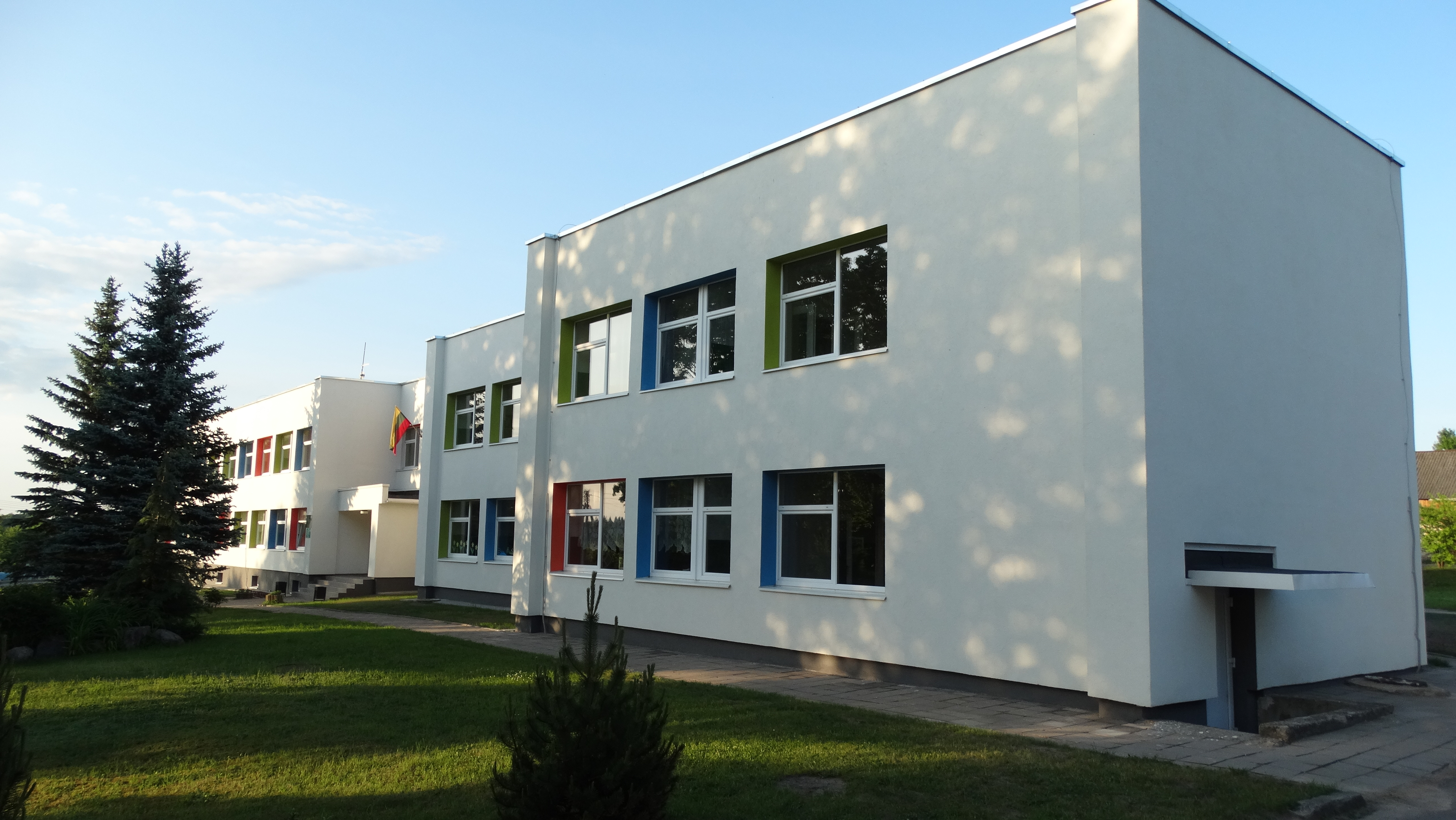 School–multifunction centre, Mostiškės, Vilnius District, Lithuania